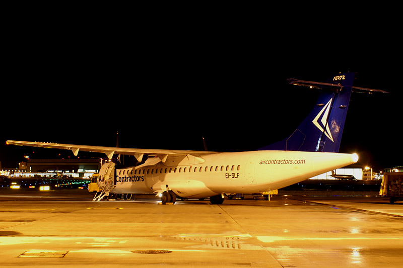 Air Contractors ATR 72 (EI-SLF)